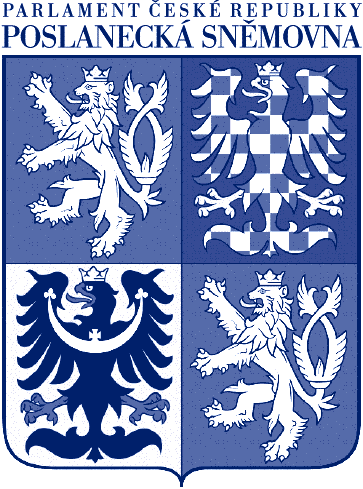 Logo of Chamber of Deputies of the Czech Republic.